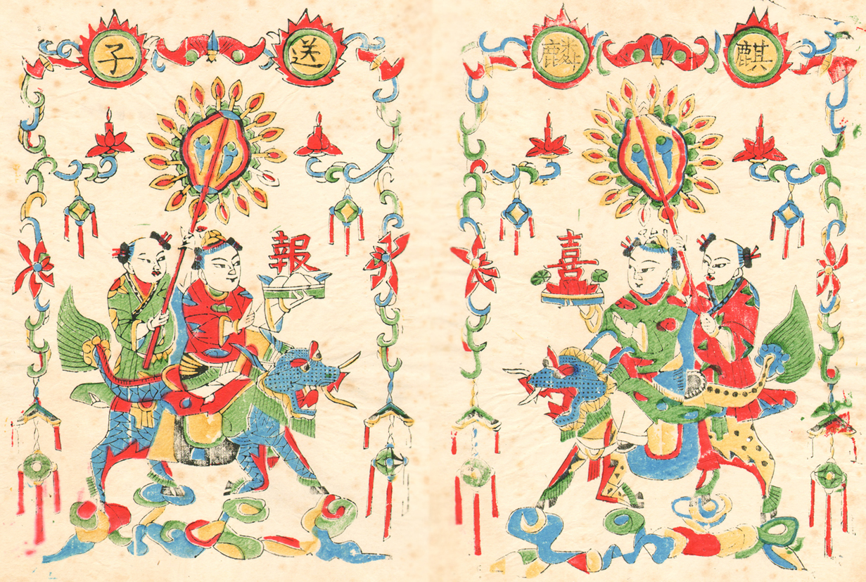 New Year picture/ Unknown. 1900.